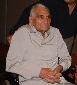 B.R.Chopra at Audio Release Of Naya Daur